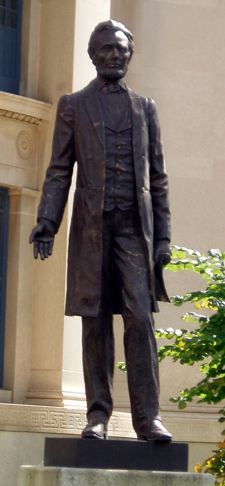 Photo of The Great Emancipator along the Lincoln Highway. Other information Used in the Lincoln Highway article